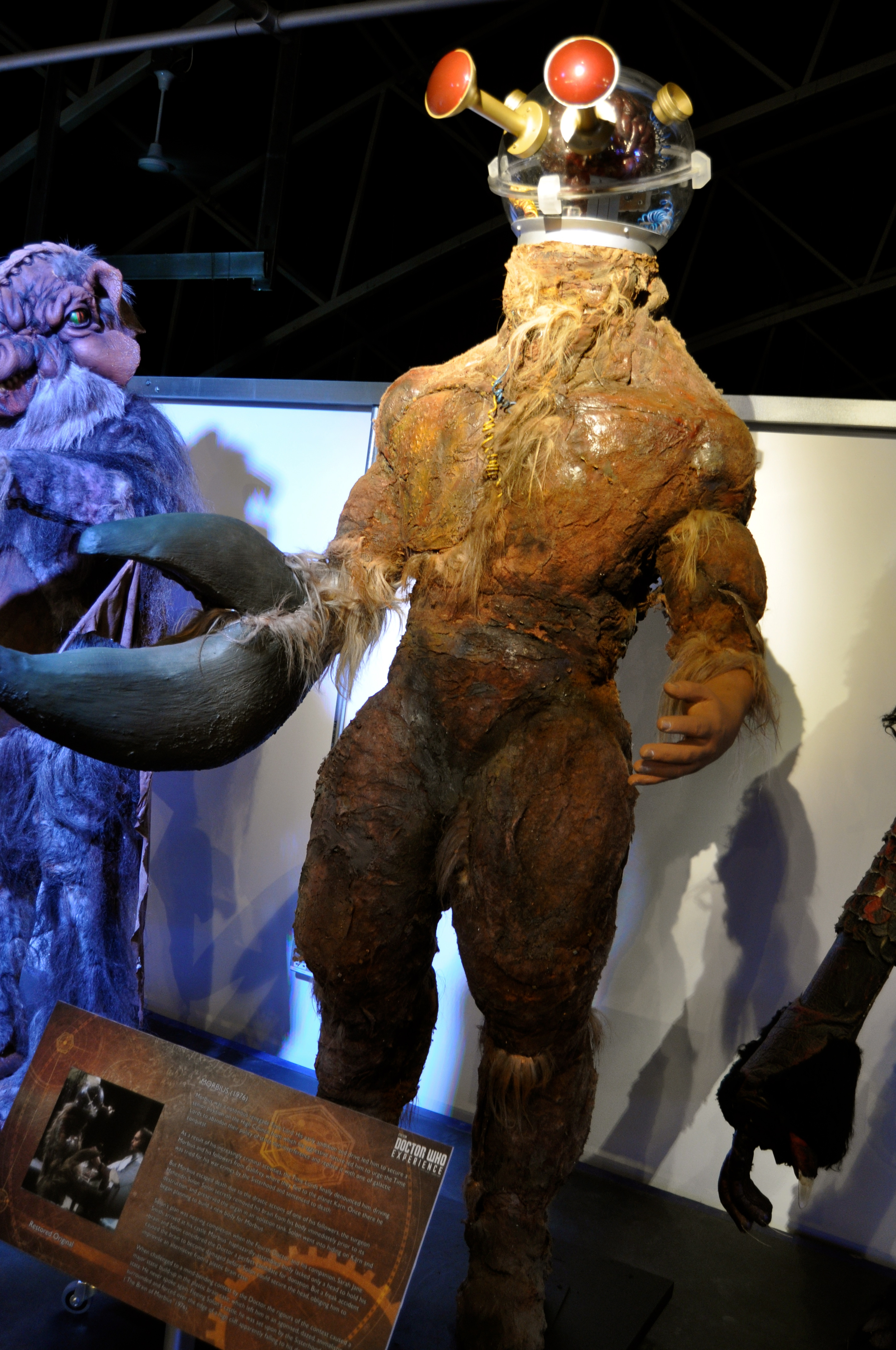 DWE Cardiff Bay, Port Teigr November 2016 Doctor Who Experience